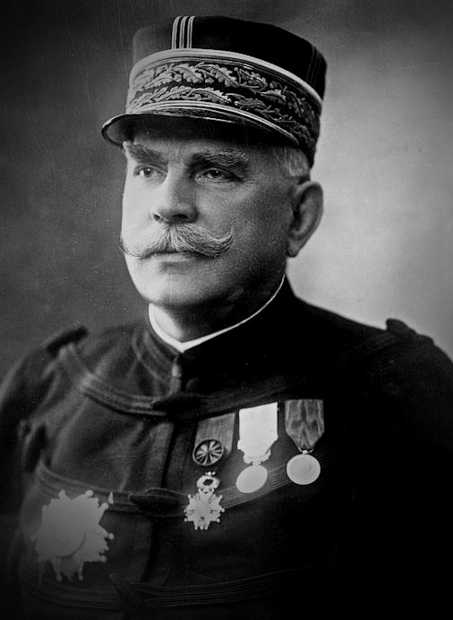 Photograph of French Commander-In-Chief, Marshal Joseph Joffre